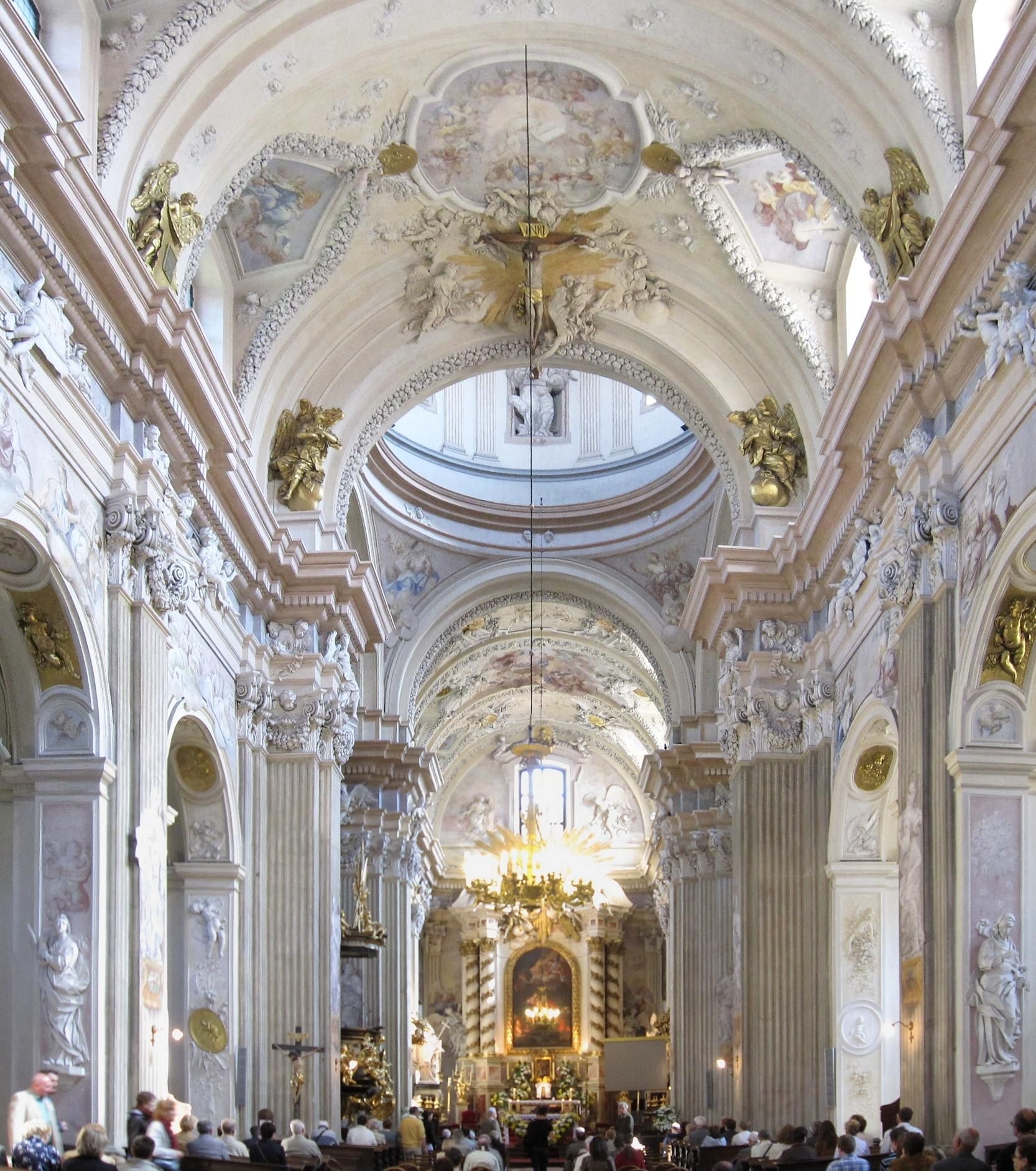 Interior of the Church of St. Anne in Krakow.